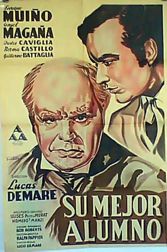 Poster for the Argentine movie Su mejor alumno about the life of Domingo F. Sarmiento.